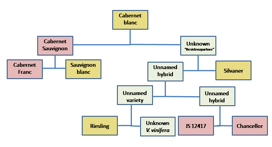 Family tree of Cabernet blanc. Not sure why the text is blurry. Anyone with more tech skills is welcomed to reproduce a better version.